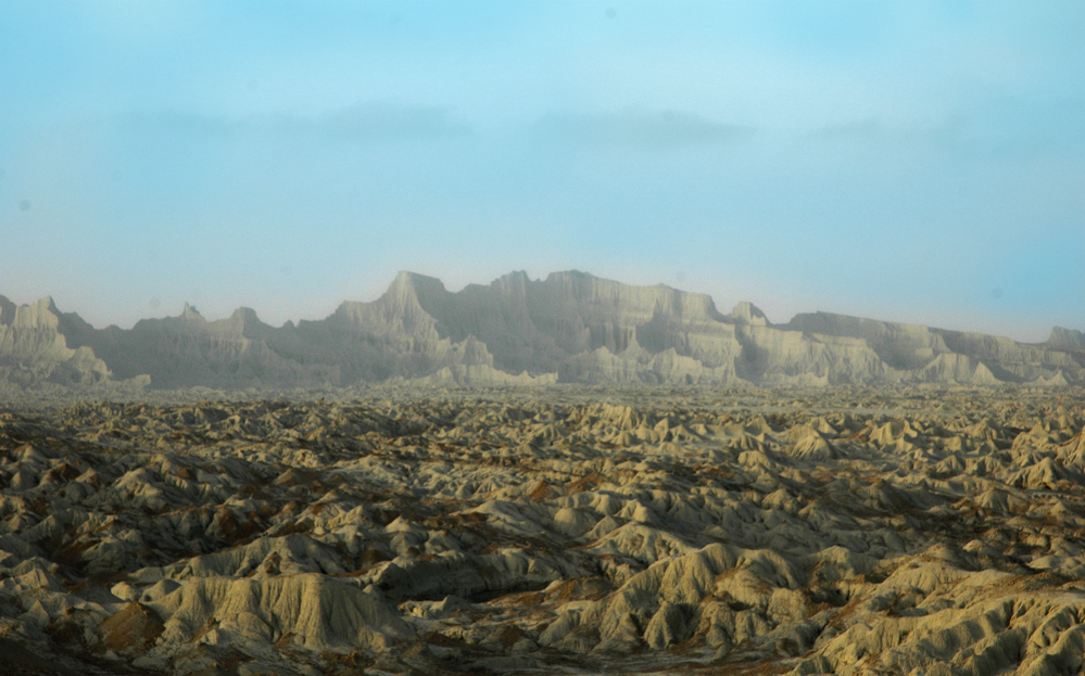 Mars (or Miniator) Mountains in Chabahar, Sistan and Baluchestan, IRAN